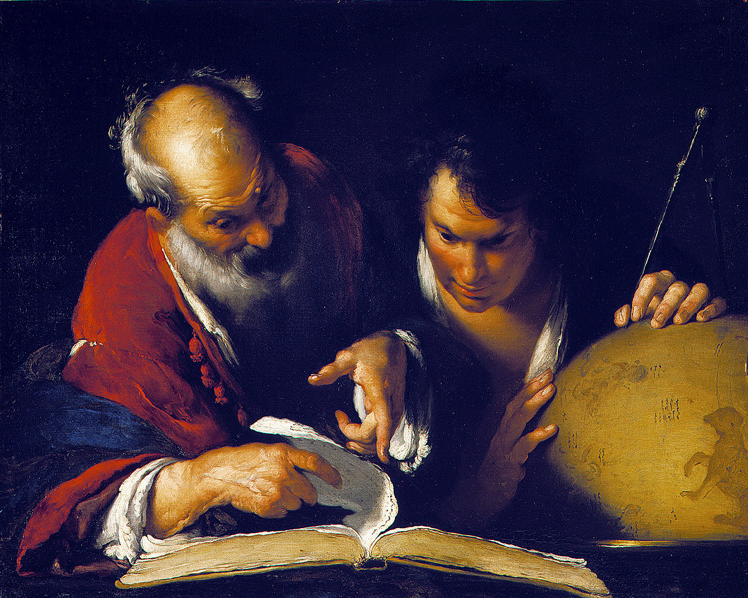 Eratosthenes teaching in Alexandriatitle QS:P1476,en:"Eratosthenes teaching in Alexandria" label QS:Len,"Eratosthenes teaching in Alexandria"